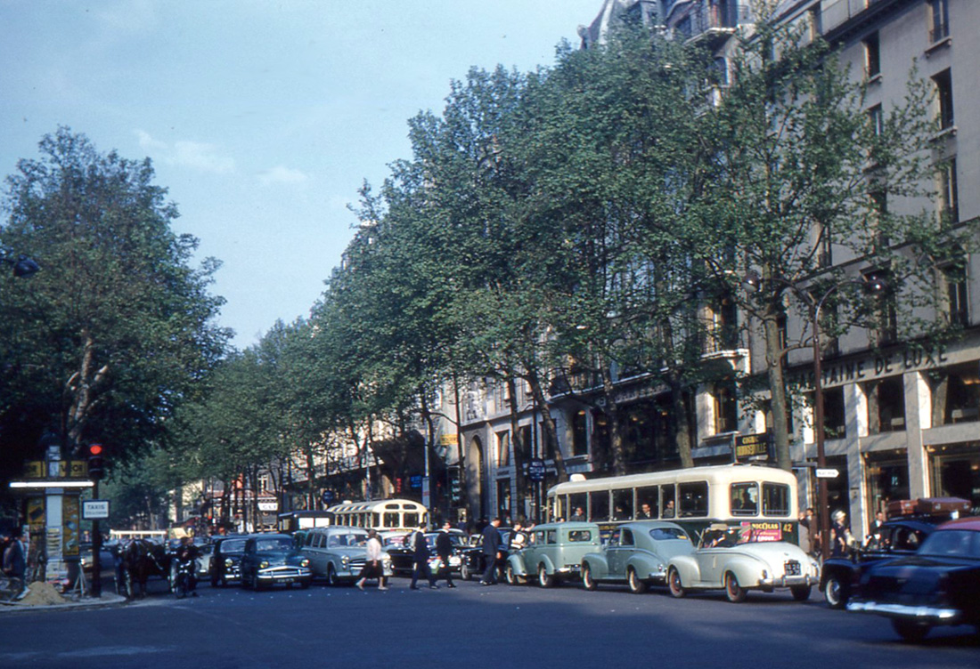 Boulevard des Capucines